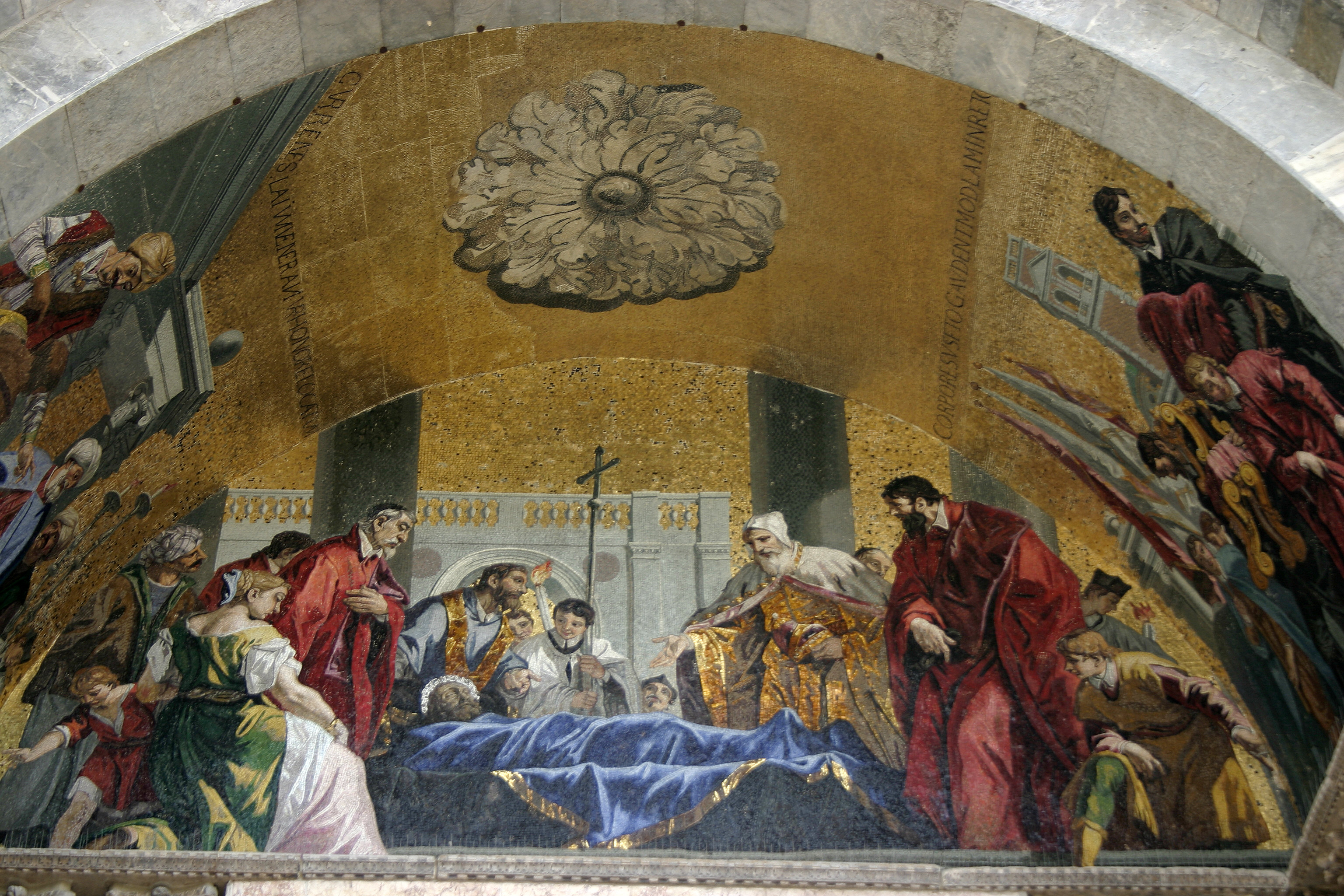 Venice - St. Mark's Basilica, facade – Second lunette counting from left: Sebastiano Ricci and Leopoldo Del Pozzo, Saint Mark's body venerated by the doge (1728).